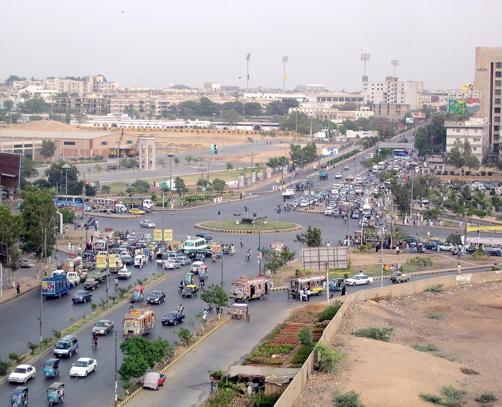 Please feel free to tag and add further notes if you spot something you recognize.